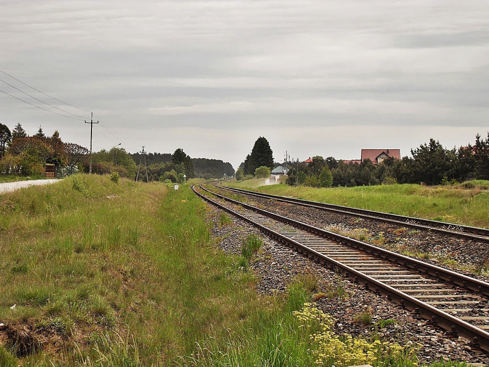 Railway line 203 in the direction Starogard